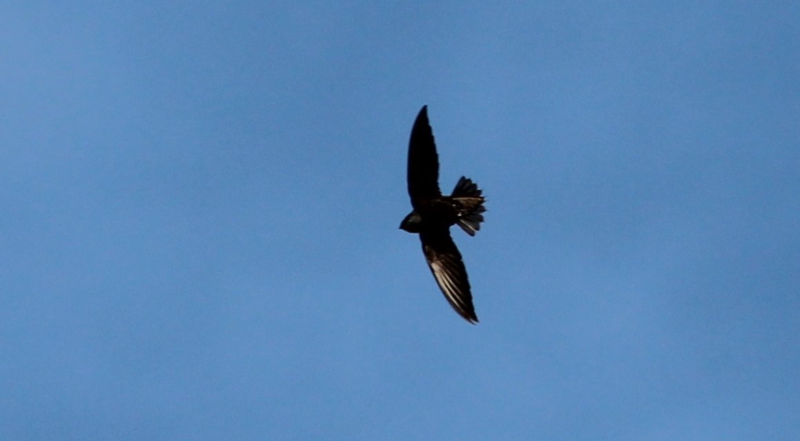 Chimney Swift